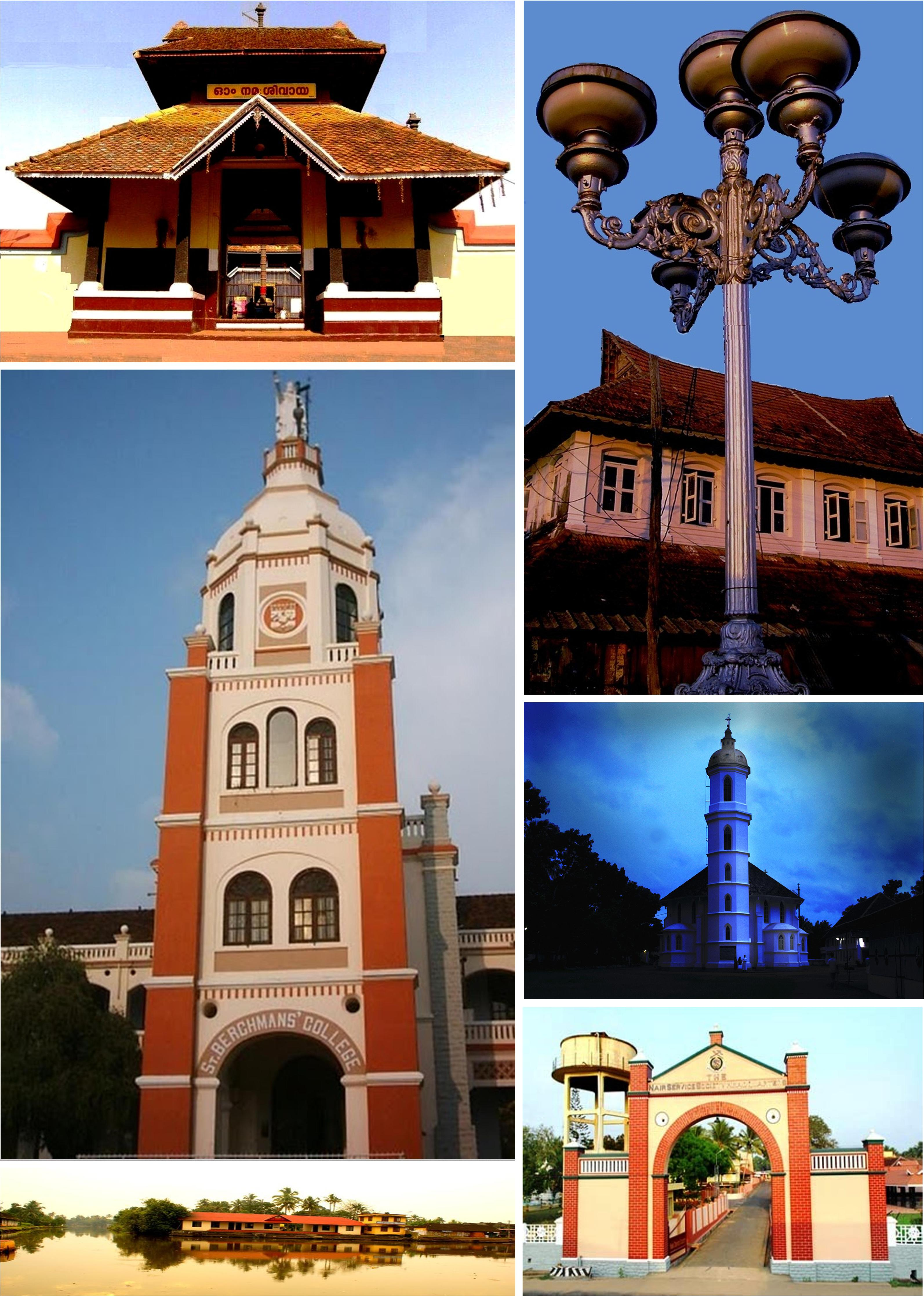 CHANGANASSERY LANDMARKS; Vazhappally Temple, Five Lamps, SB College, Metropolitan Church, Boat Jetty, NSS Head Quarters